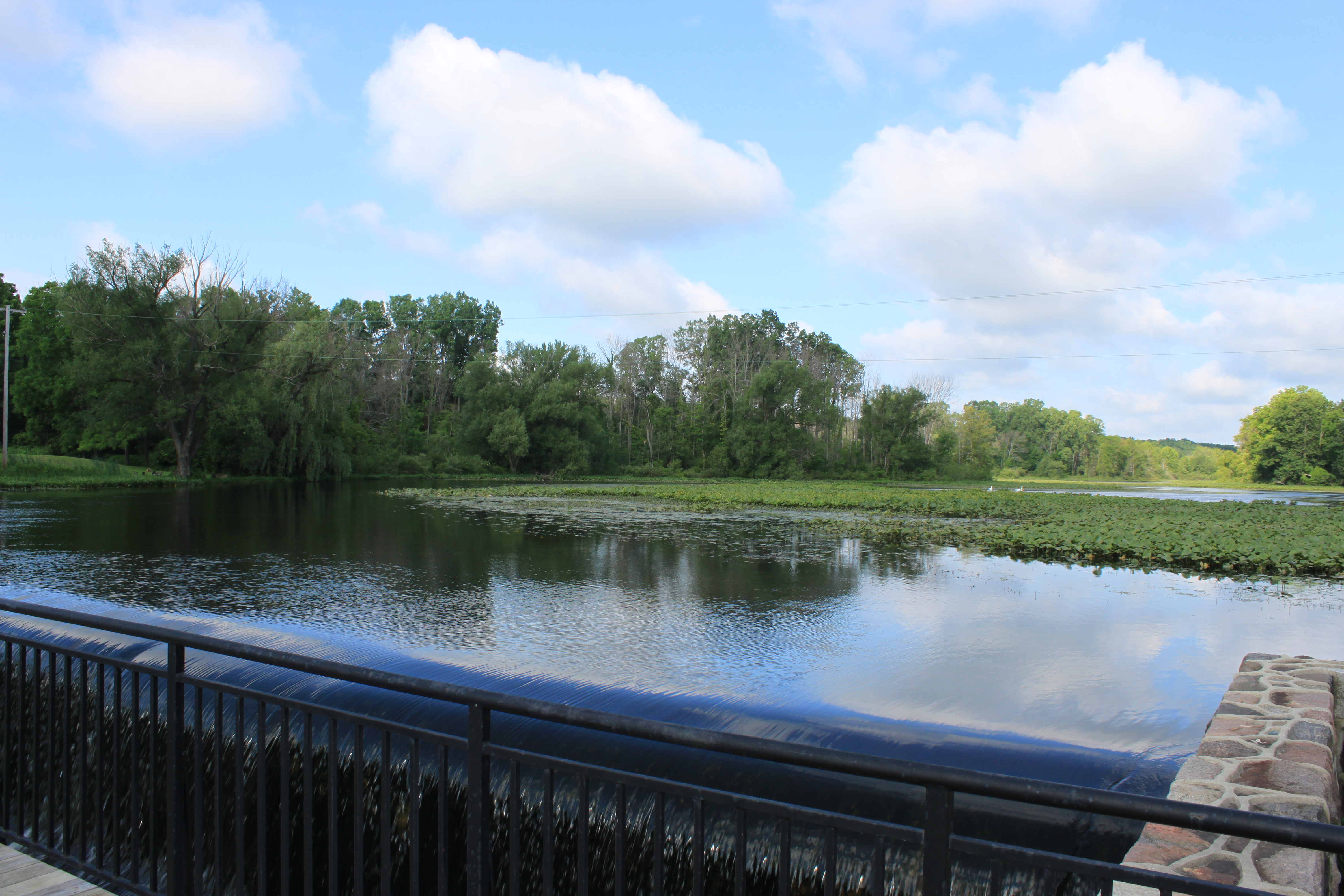 Sharon Township Michigan, River Raisin from Sharon Hollow Road